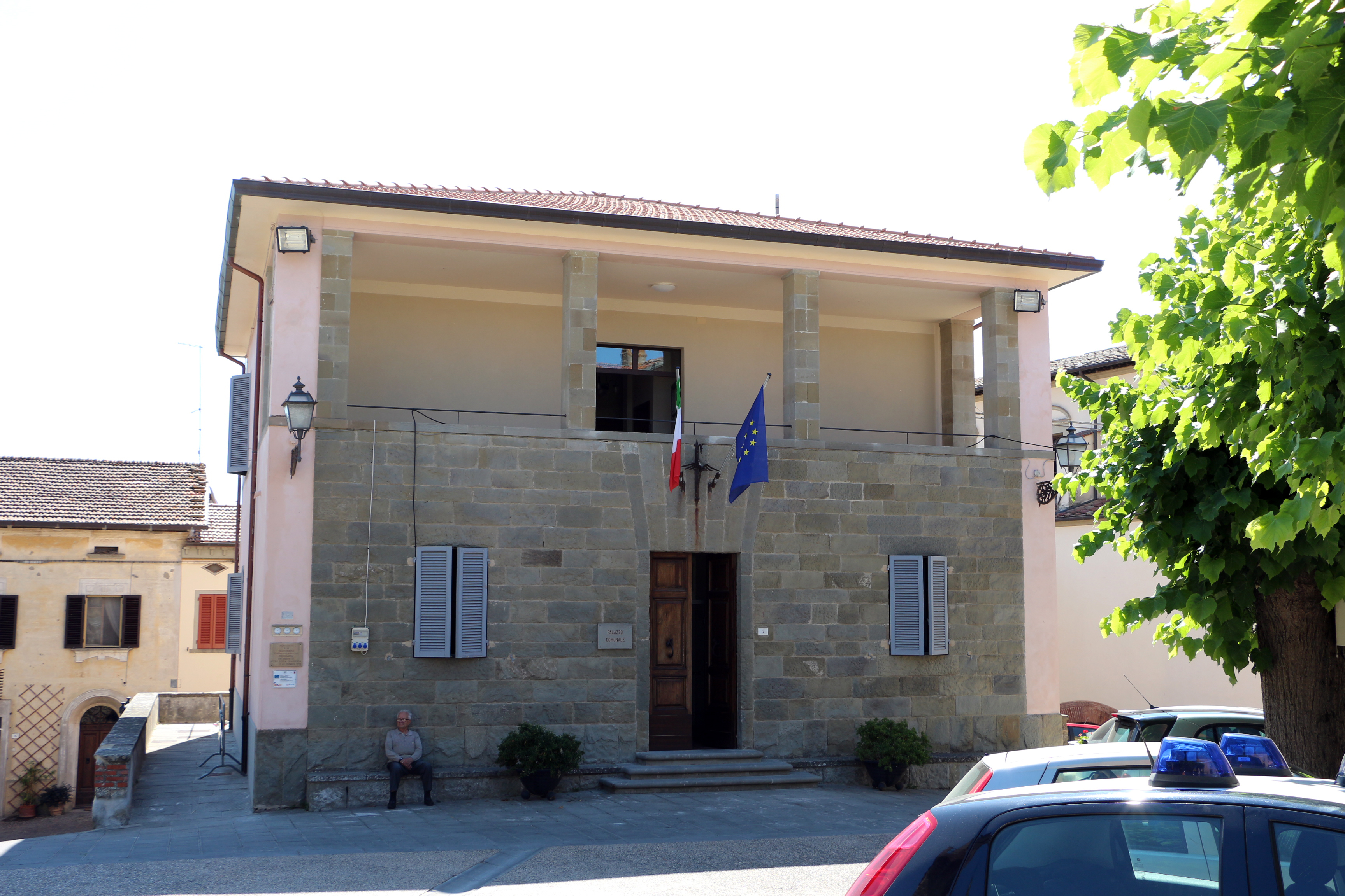 Monterchi